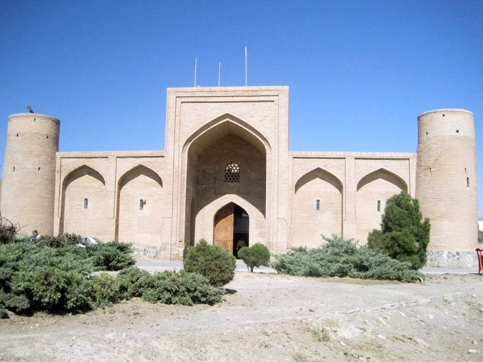 Fakhr-e Davood House, a historical cite related to Timurid dynasty of Persia (Iran), 14th century AD. The house is located in Khorasan province. Photo: Seraj Mirdamadi / PDN